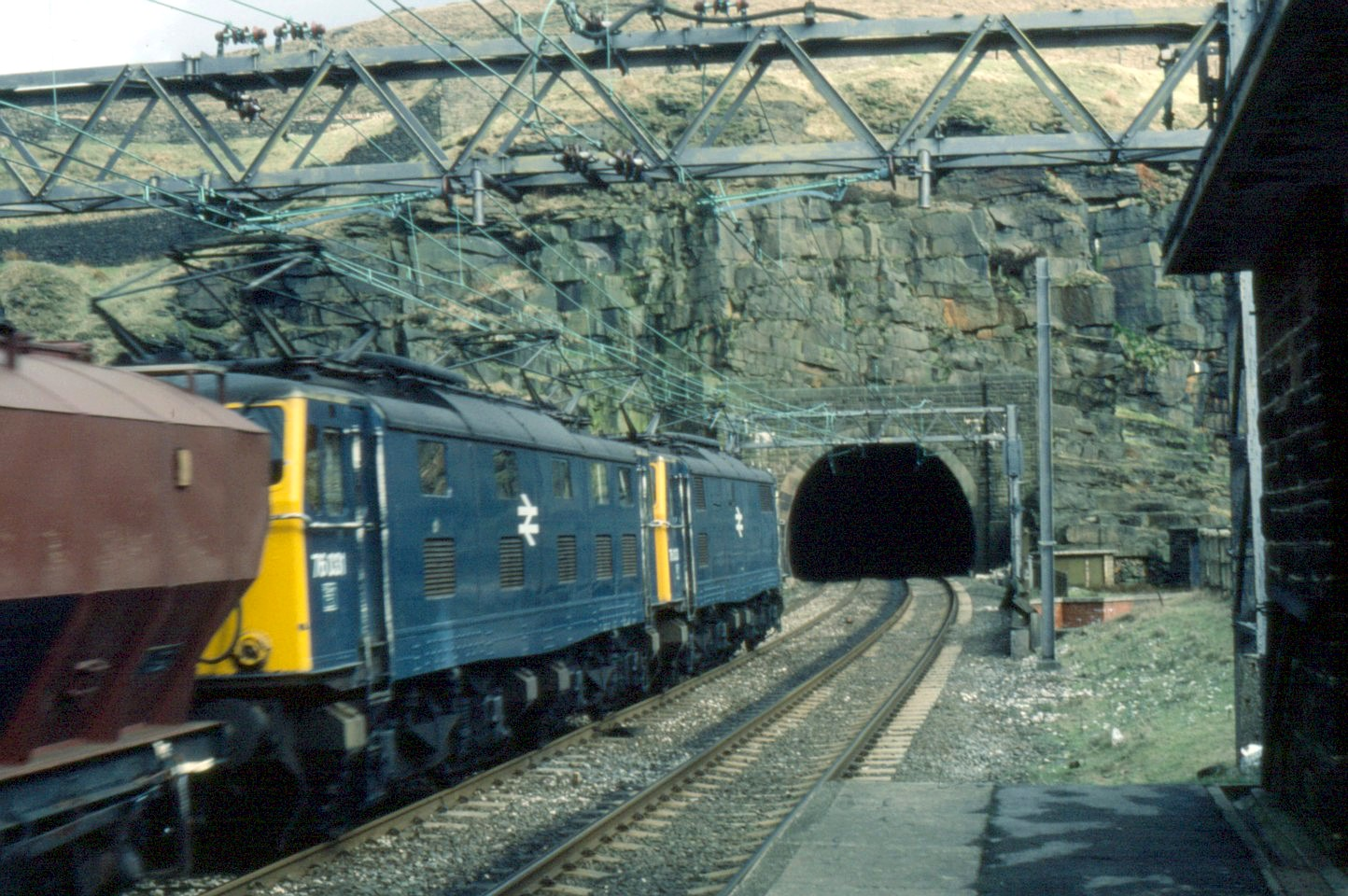 British Rail Class 76 locomotives 76033 and 76031 at Woodhead on 24th March 1981.jpeg